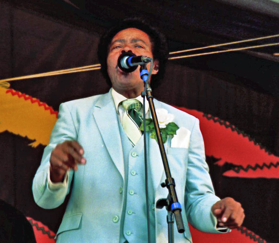 Ernie K-Doe at the New Orleans Jazz & Heritage Festival (Polaroid Stage on the same bill with Jessie Hill)